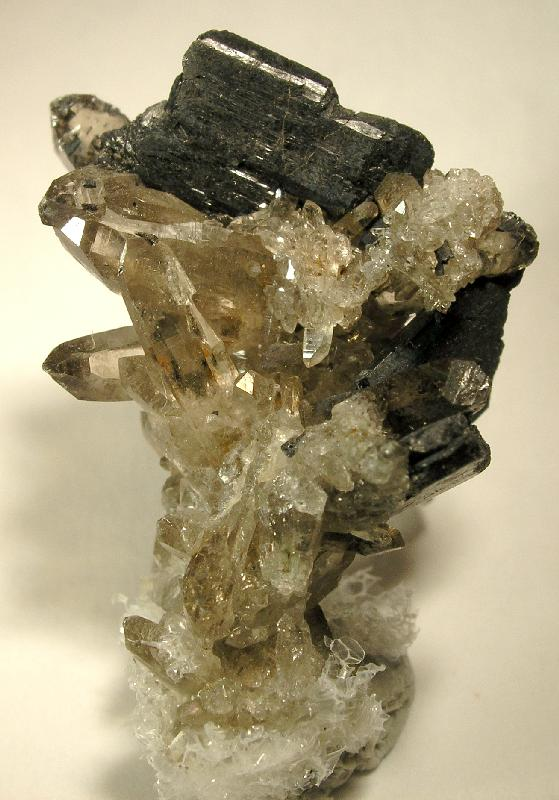 Allanite, Quartz (Var.: Smoky Quartz) Locality: Smoky Bear (Crystal; Bonita Crystal), White Mountain Wilderness, Lincoln County, New Mexico, USA (Locality at ) Fine well-defined blades of Allanite set among superb Smokey Quartz crystals. While the habit is usual for the Allanites, the luster is better than normal. This is an aesthetic and very interesting thumb. 2.7 x 1.8 x 1.7 cm